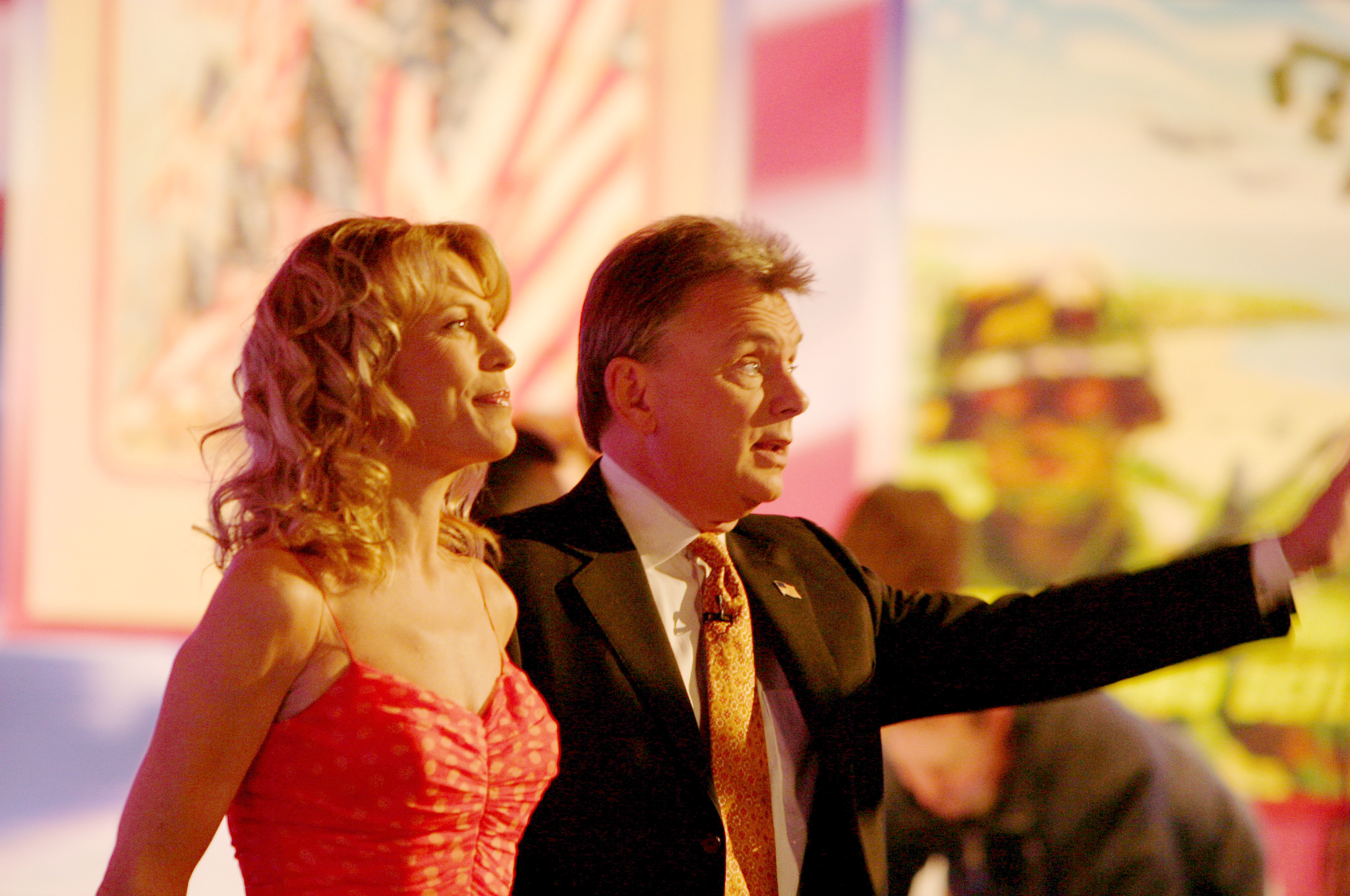 Pat Sajak and Vanna White of "Wheel of Fortune" address the studio audience during a taping of the popular game show at Sony Entertainment Studios in Los Angeles Feb. 8. The show featured 15 service members as contestants when hosted "Wheel Salutes the Armed Forces," which is scheduled to air the week of April 3.